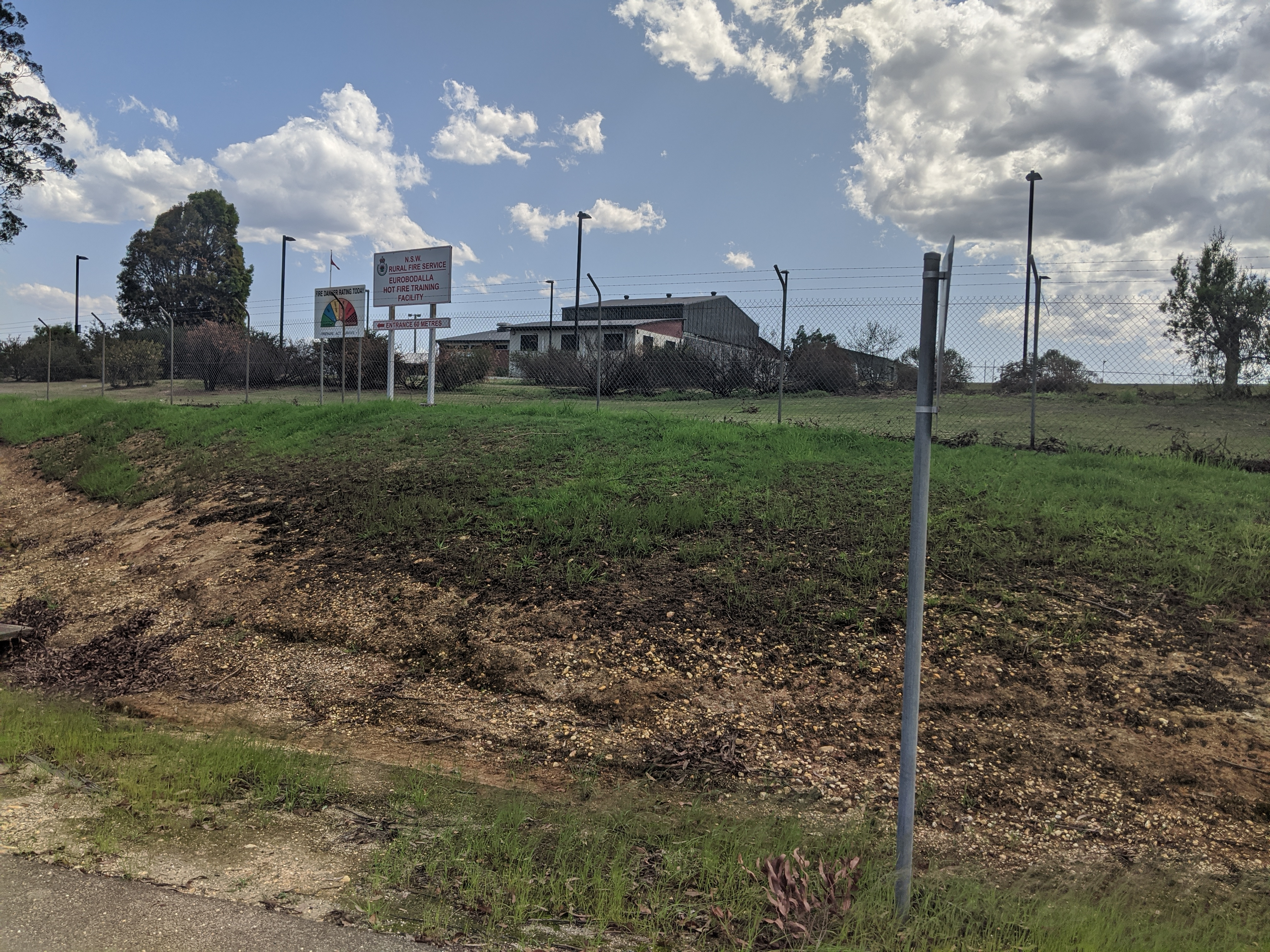 Fire station, Bimbimbie, New South Wales, 2020